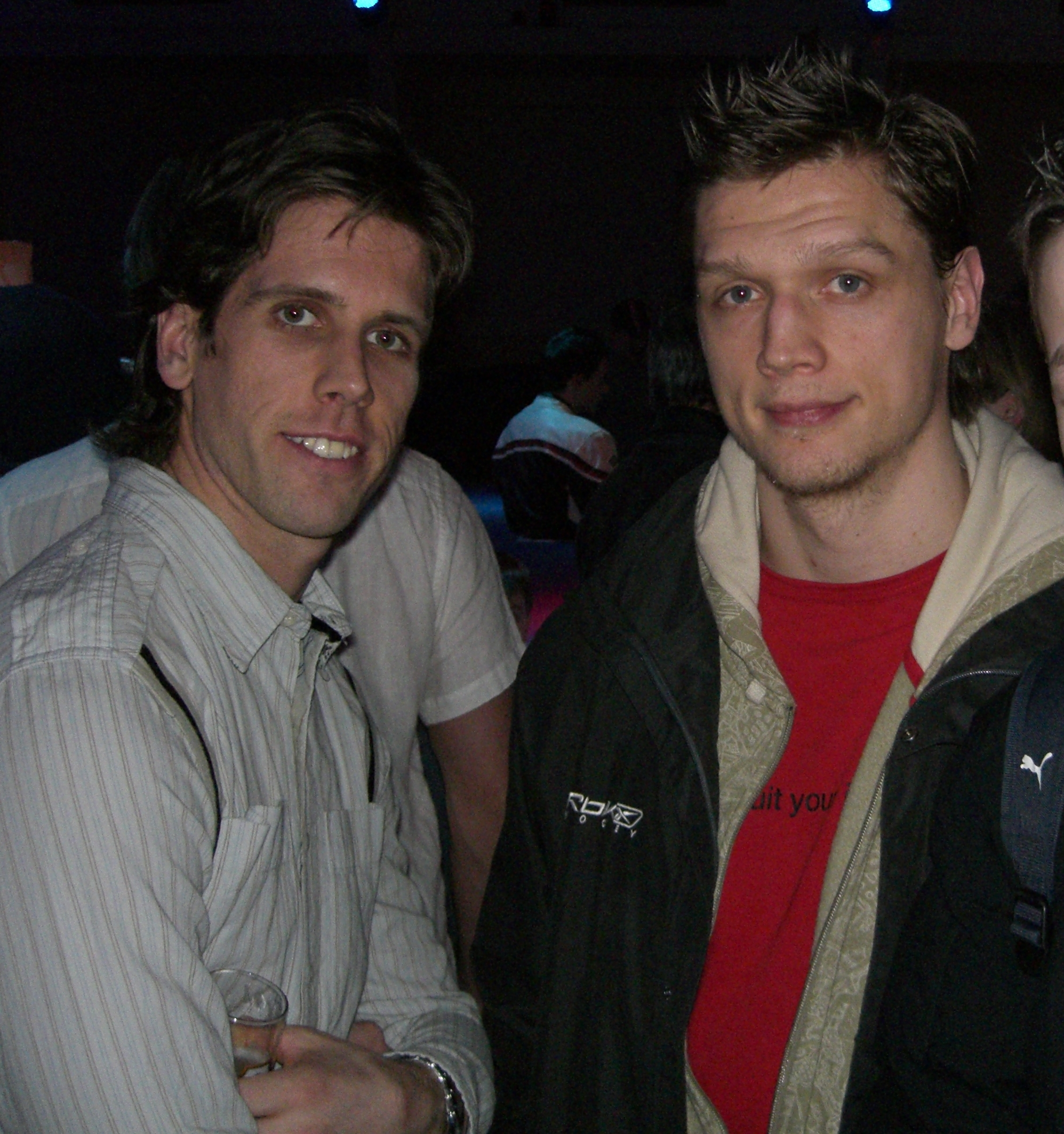 Jeremy Adduono and David Sulkovsky, Iserlohn Roosters